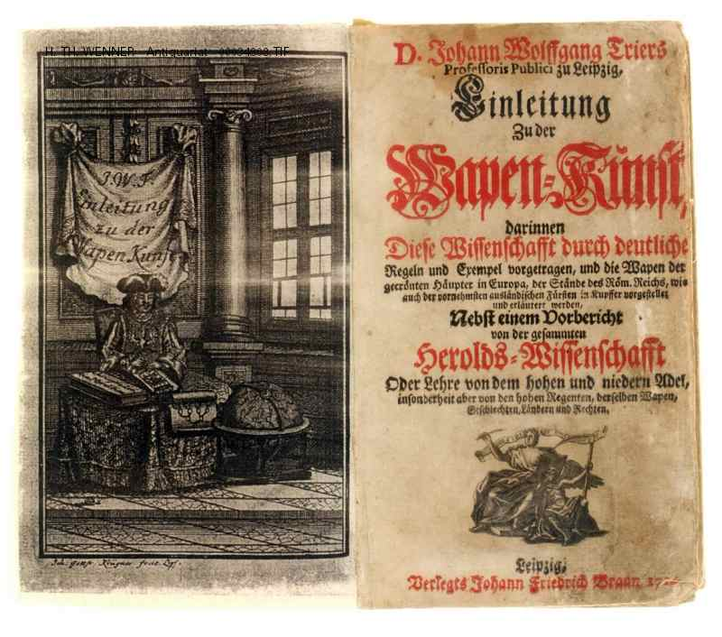 Titel of a heraldic-book written by the german heraldist Johann Wolfgang Trier (1686 - 1750)